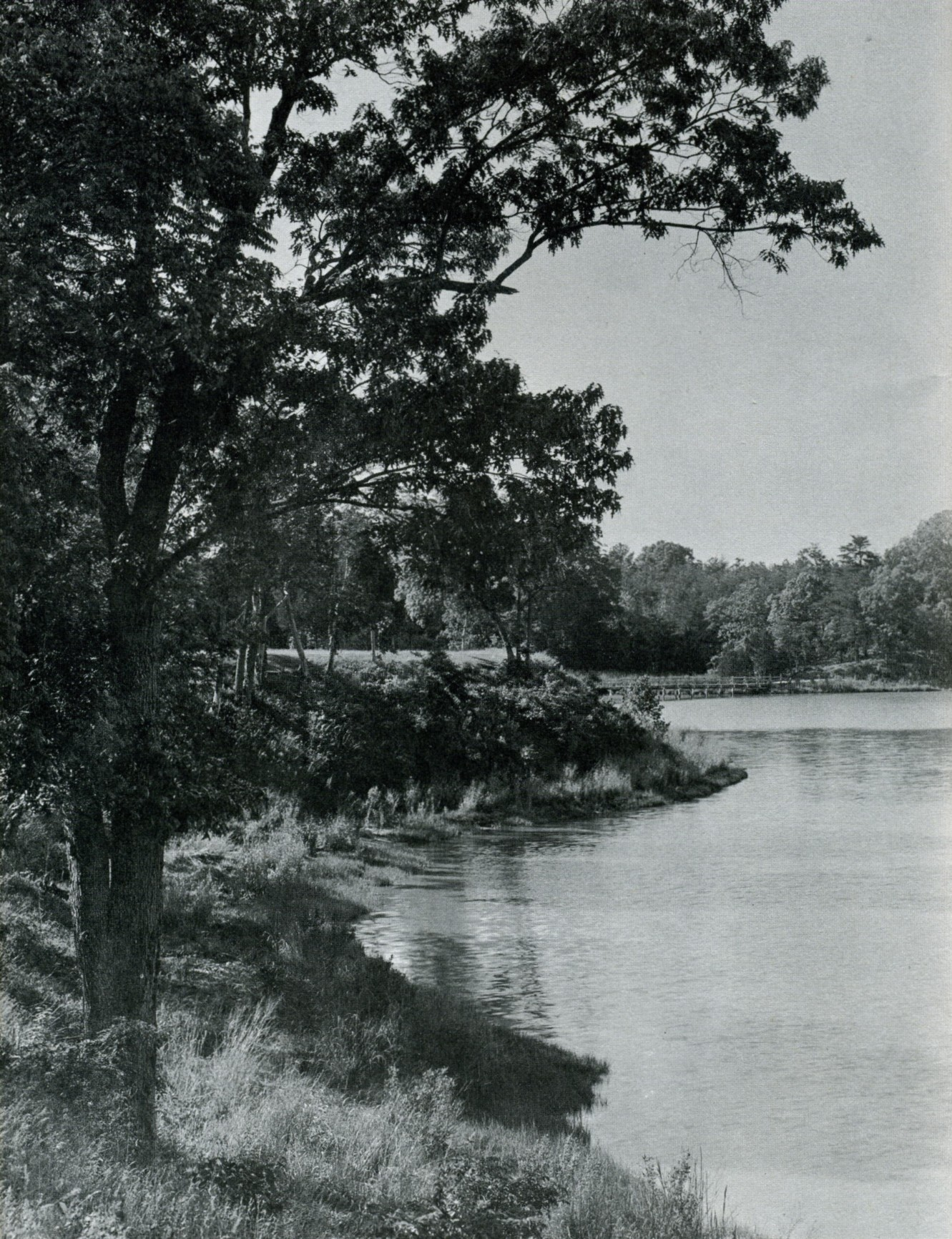 A scene along Pope's Creek, 200 feet from the birthplace home of George Washington in Virginia.